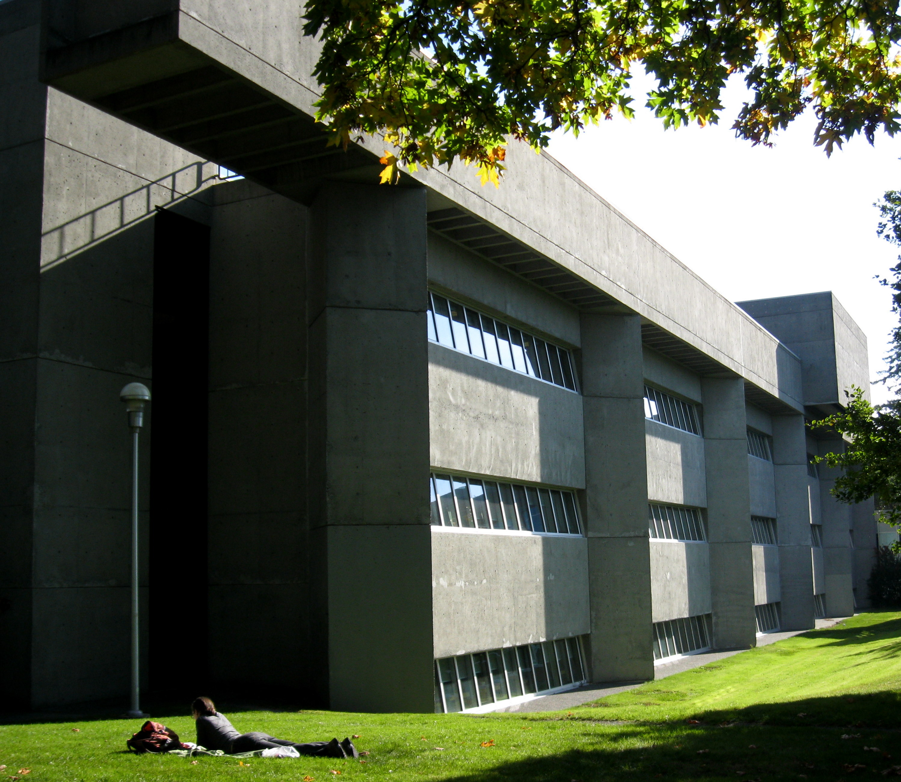 Cunningham biology building. READ MORE IN PANORAMIO/COMMENT